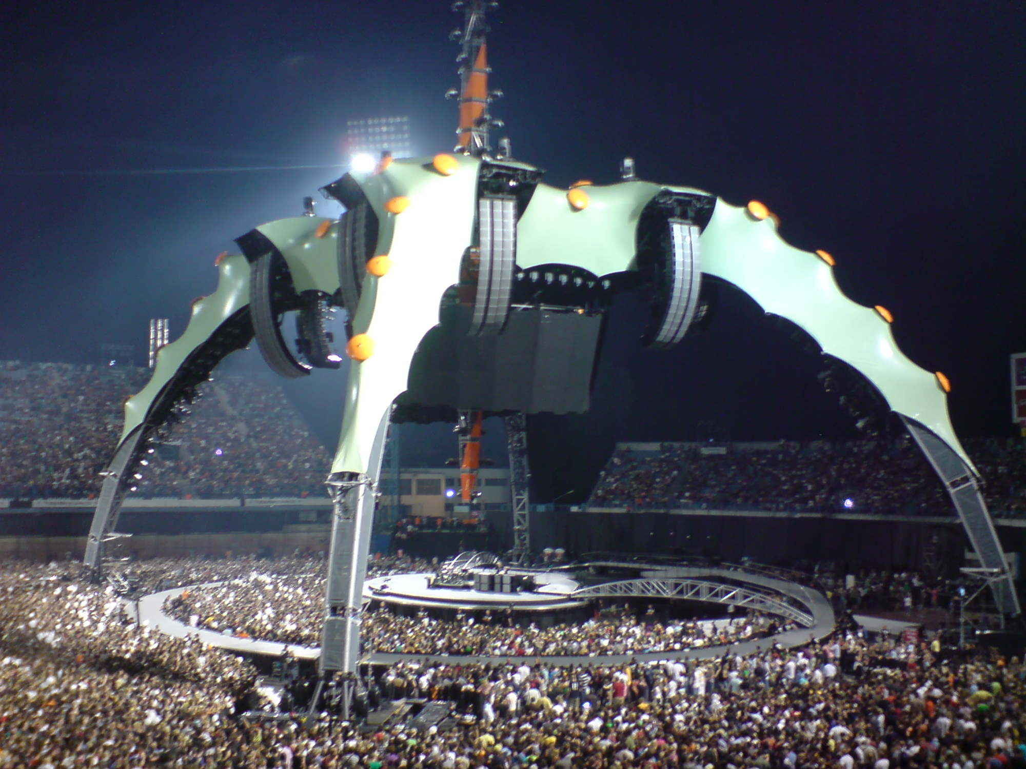 U2 360 tour stage, before one of the 2 Zagreb concerts